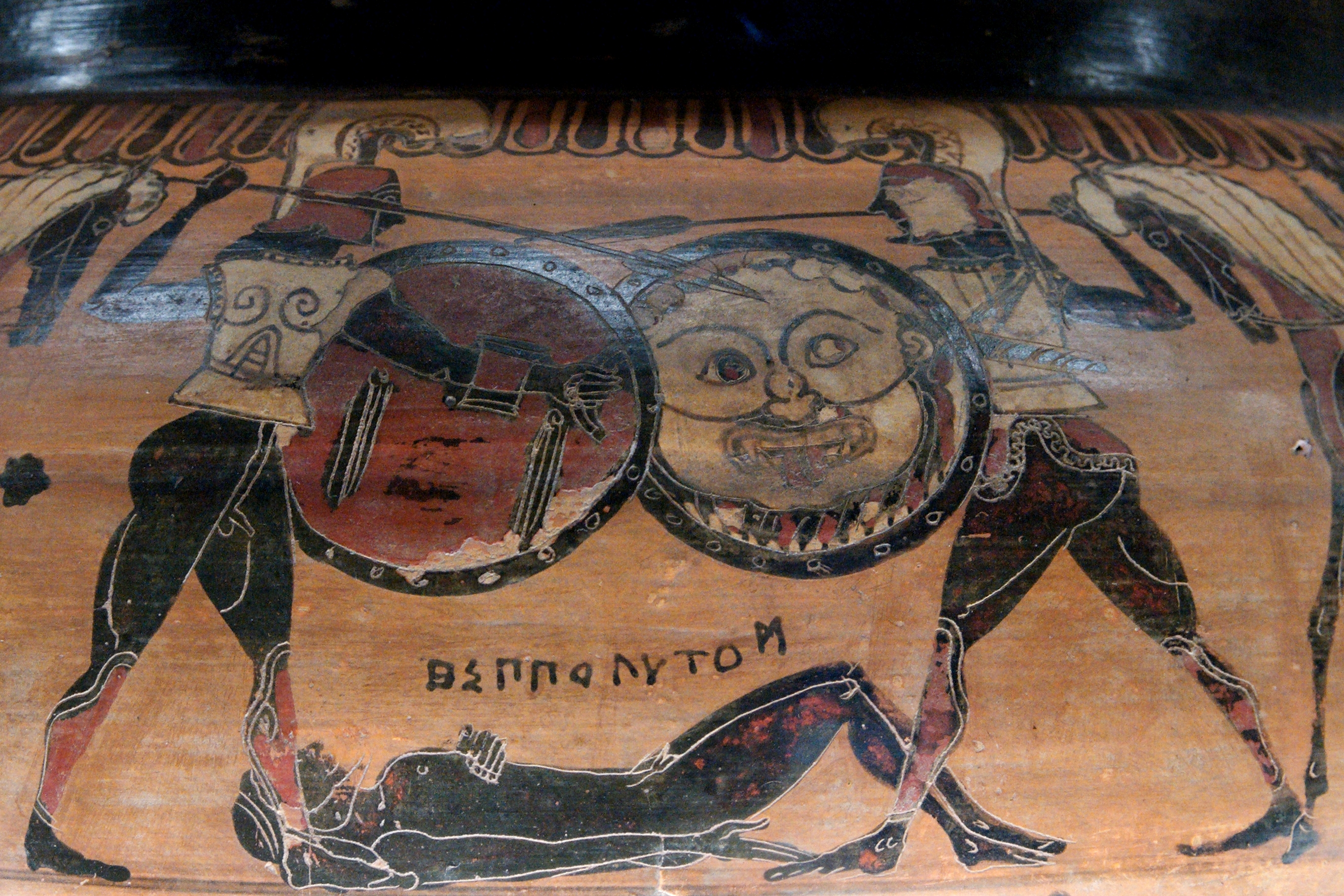 Fight over the body of Hippolyte. Corinthian black-figure column-krater, ca. 575–550 BC.